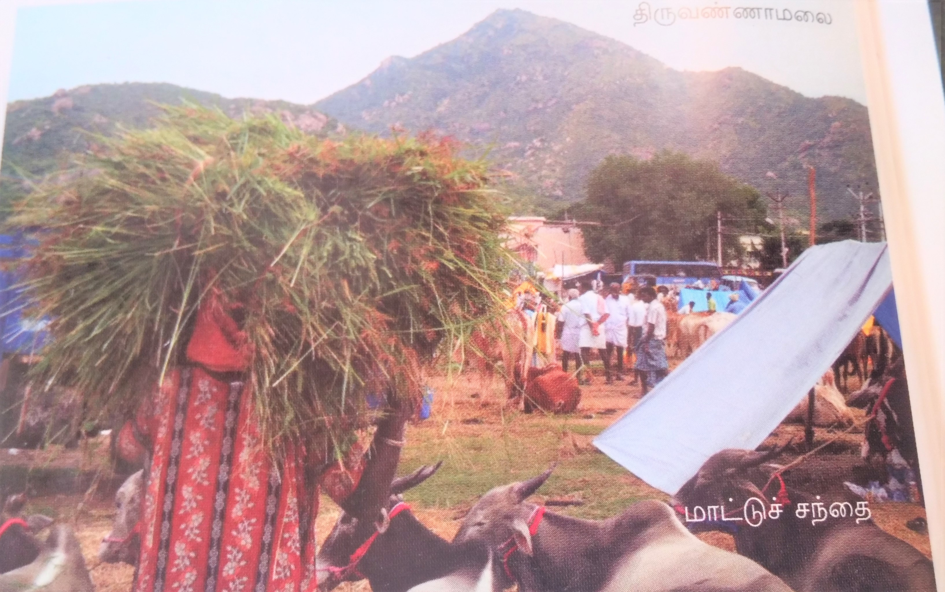 Tiruvannamalai events